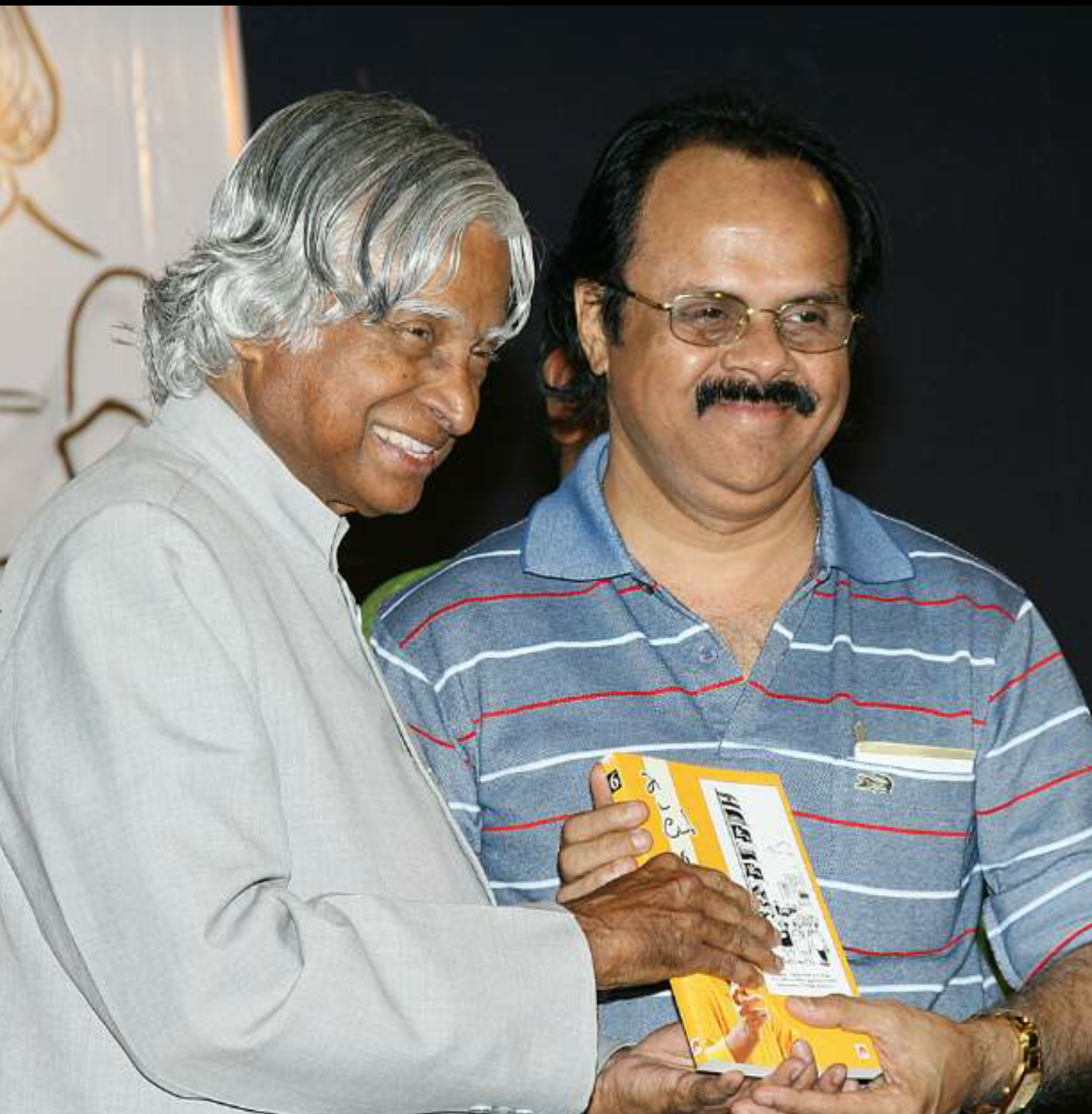 Rangachary Mohan alongwith Late former president Dr.A.P.J. Abdul Kalam